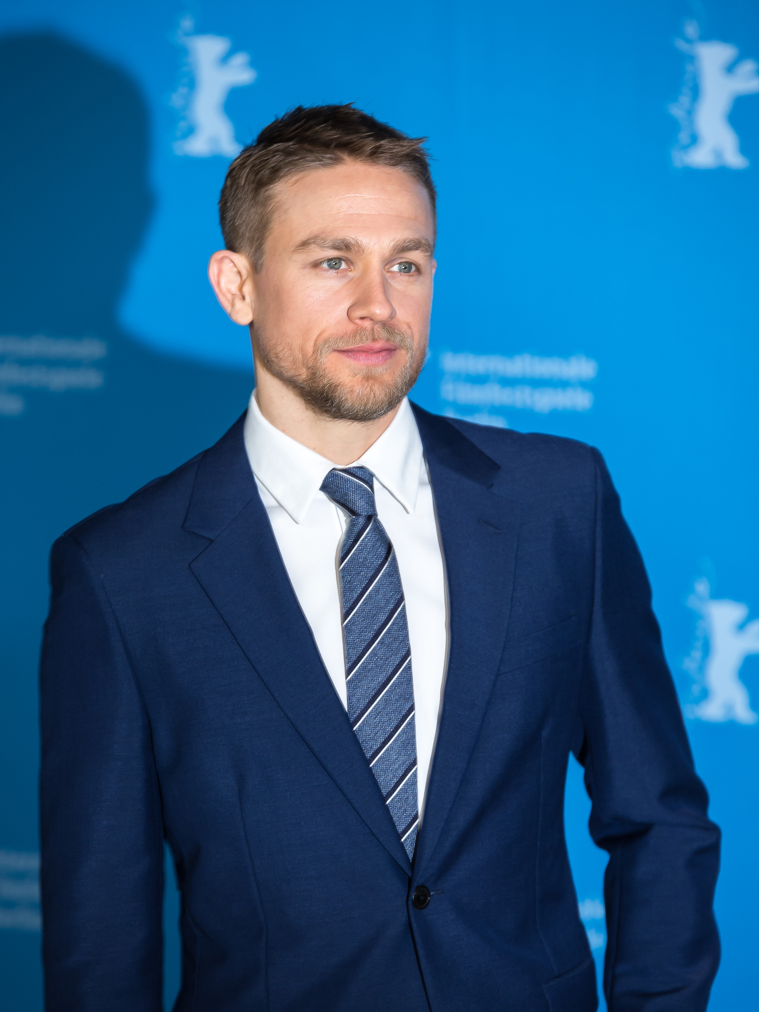 Actor Charlie Hunnam at the presentation of The Lost City of Z at the Berlinale 2017